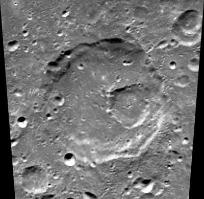 Lemaître lunar crater - Clementine image